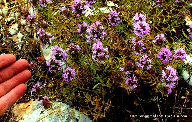 نباتات برّية سورية تؤكل